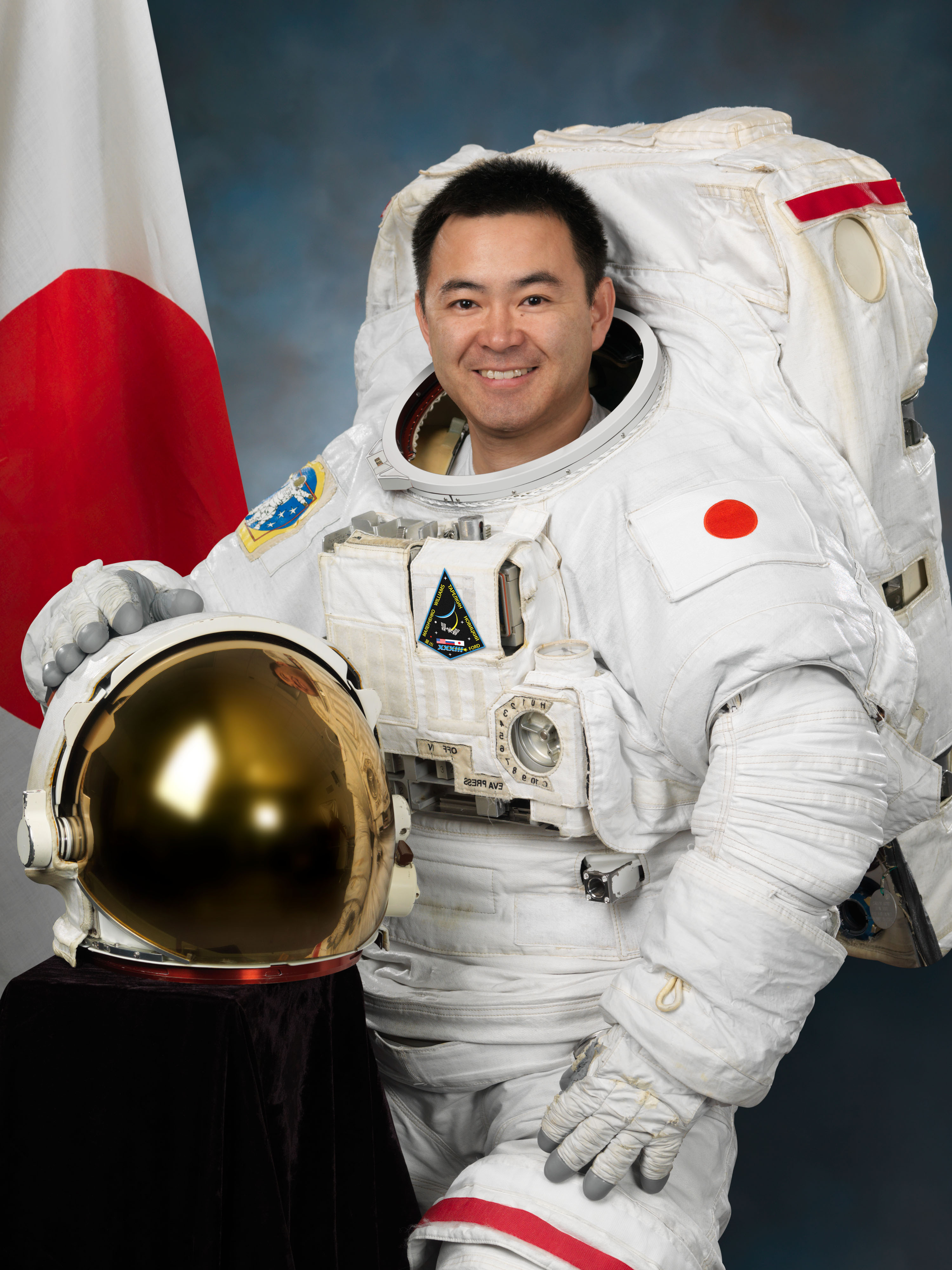 Japan Aerospace Exploration Agency (JAXA) astronaut Akihiko Hoshide, attired in a training version of his Extravehicular Mobility Unit (EMU) spacesuit.